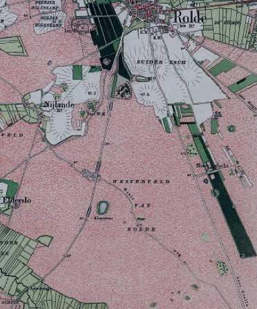 Westerveld of Rolde between Rolde and Grolloo on the topographical map of 1907